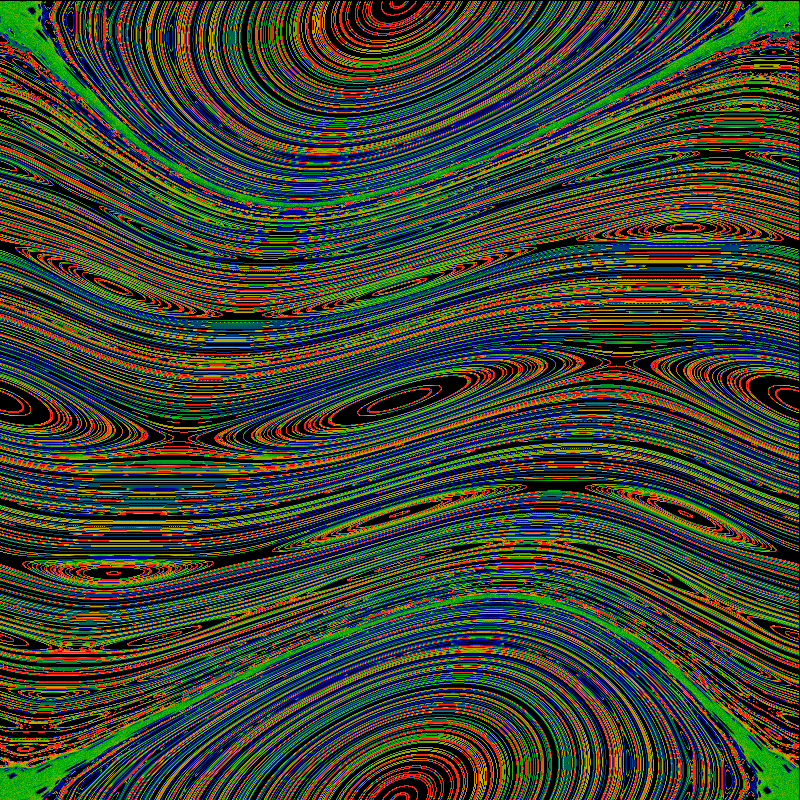 Image showing the iterated Chirikov standard map for K=0.6